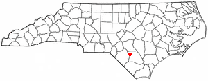 Category:North Carolina Dot Maps